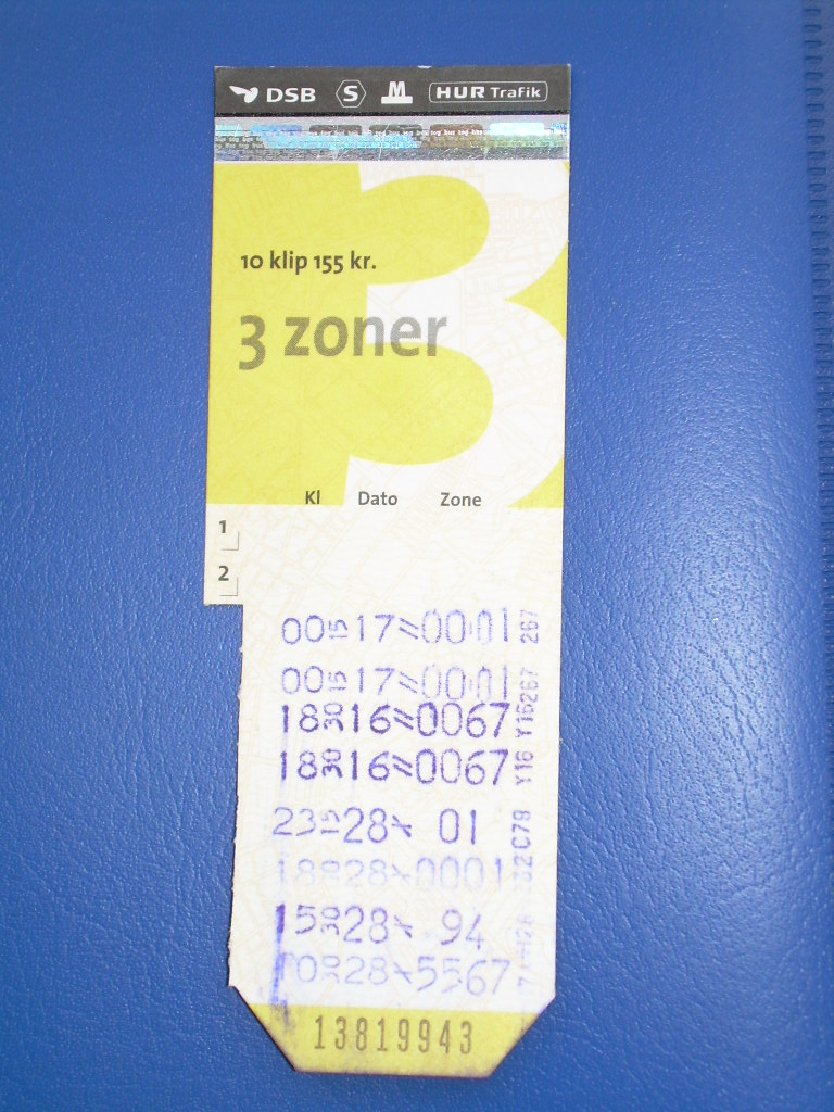 Train/bus ticket (Copehangen). The ticket allows for ten rides in a distance og 3 zones from where the journey starts. 2 rides left, 8 used. In the bus or at the train station a machine cuts off a number and stamps the card with zone, date, time and machine number. The machine clock is usually at least ten minutes ahead of real time, giving the passenger a little extra time to ride or wait for connections.